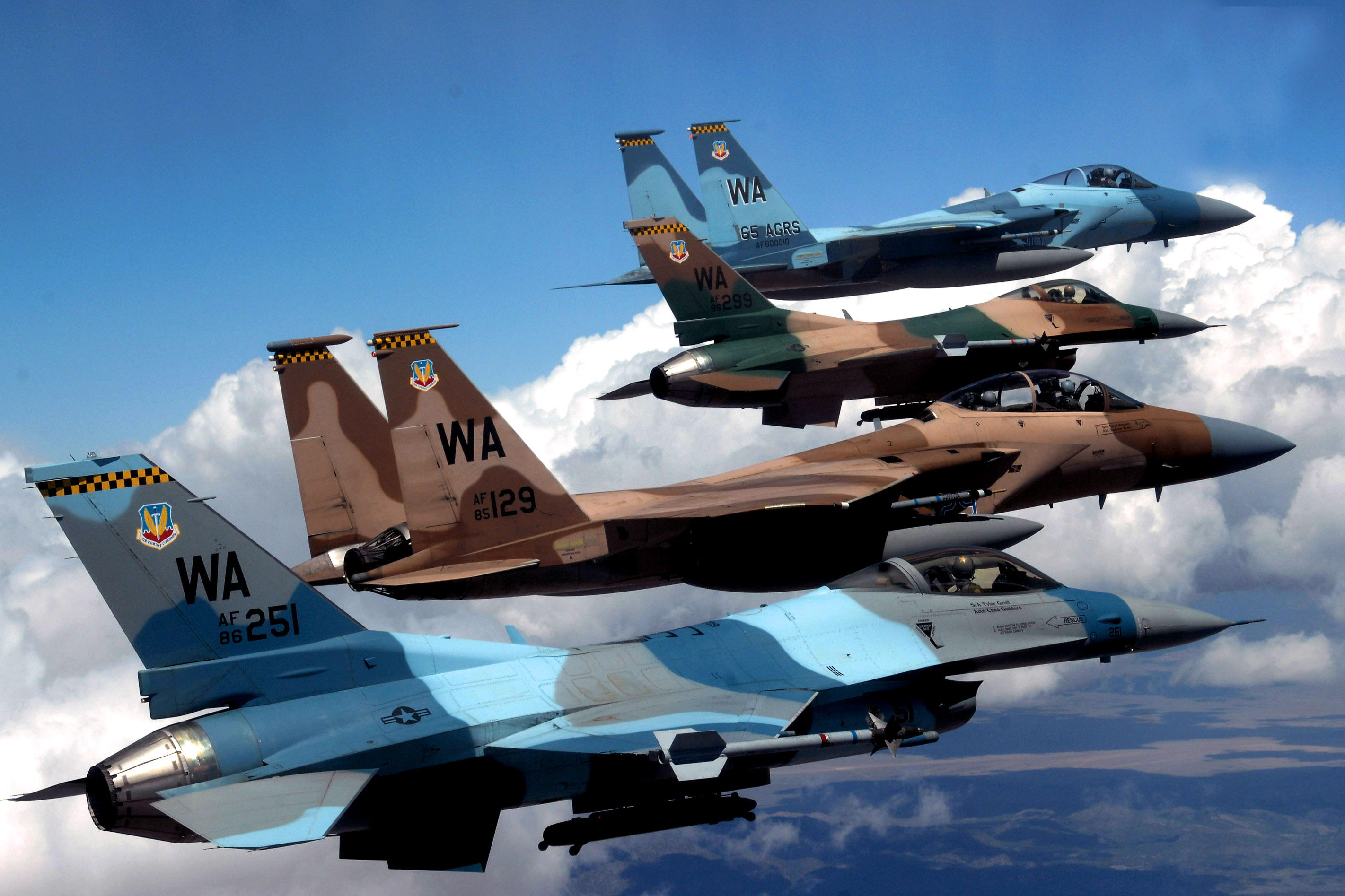 A flight of Aggressor F-15 Eagles and F-16 Fighting Falcons fly in formation, June 5, 2008, over the Nevada Test and Training Ranges. The jets are assigned to the 64th and 65th Aggressor squadrons at Nellis Air Force Base, Nevada.